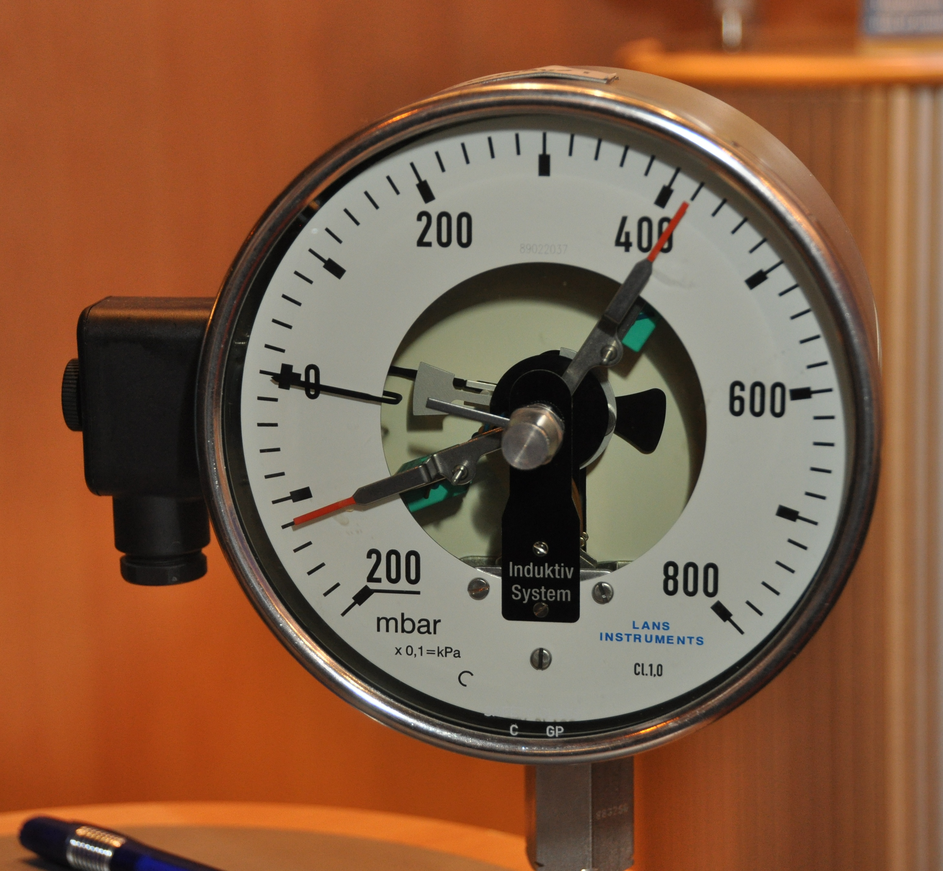 Construction & shipping industry 2010